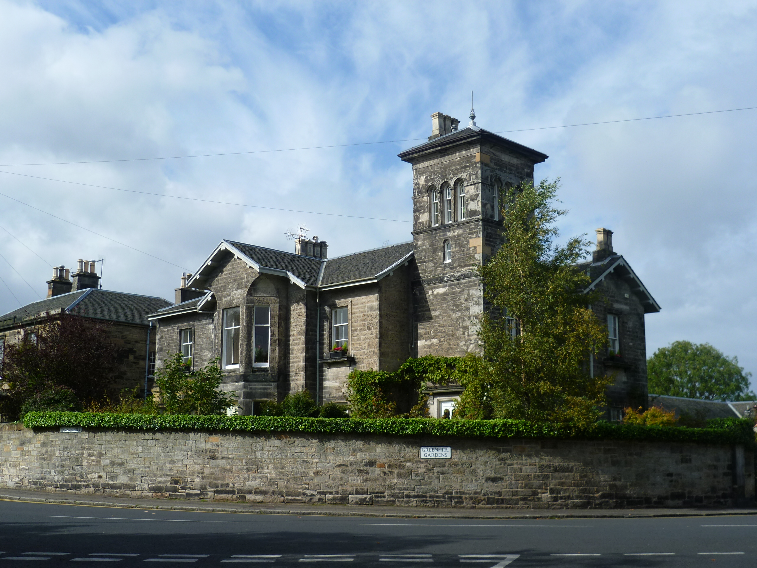 Victorian villa with a 'Little Osborne' tower, Greenhill Edinburgh